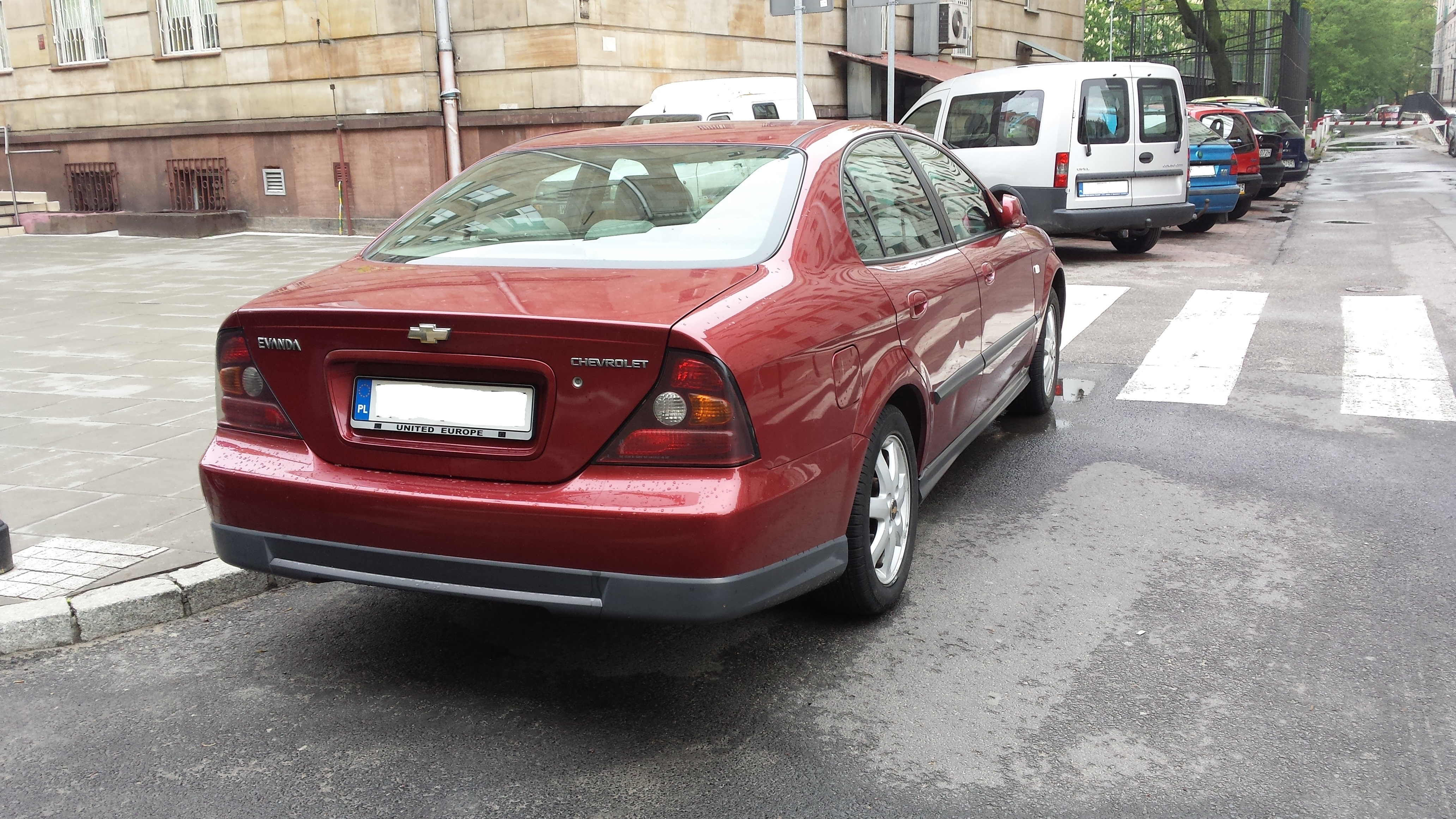 Chevrolet Evanda in Warsaw